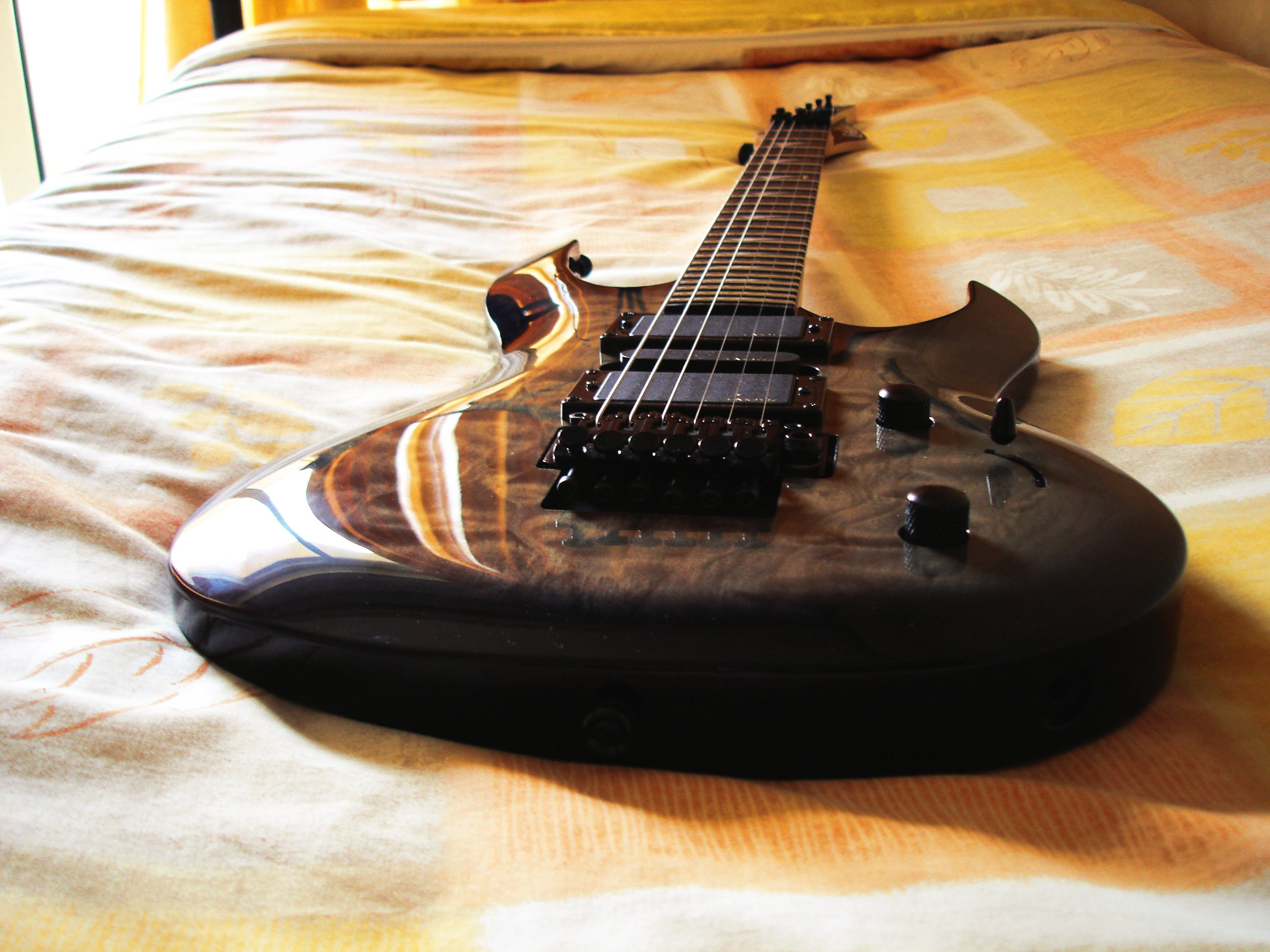 LAG - French electric guitar